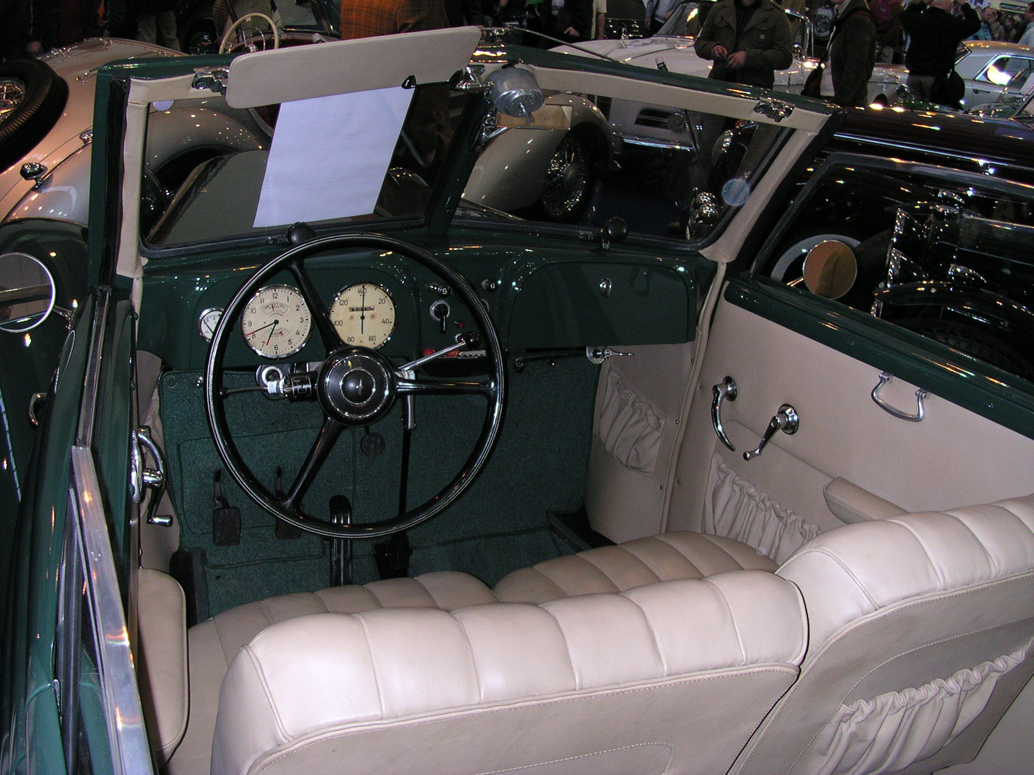 Essen Techno-Classica 2007, Adler 2 EV Cabrio, coachbuilder Karmann, 1938 cc